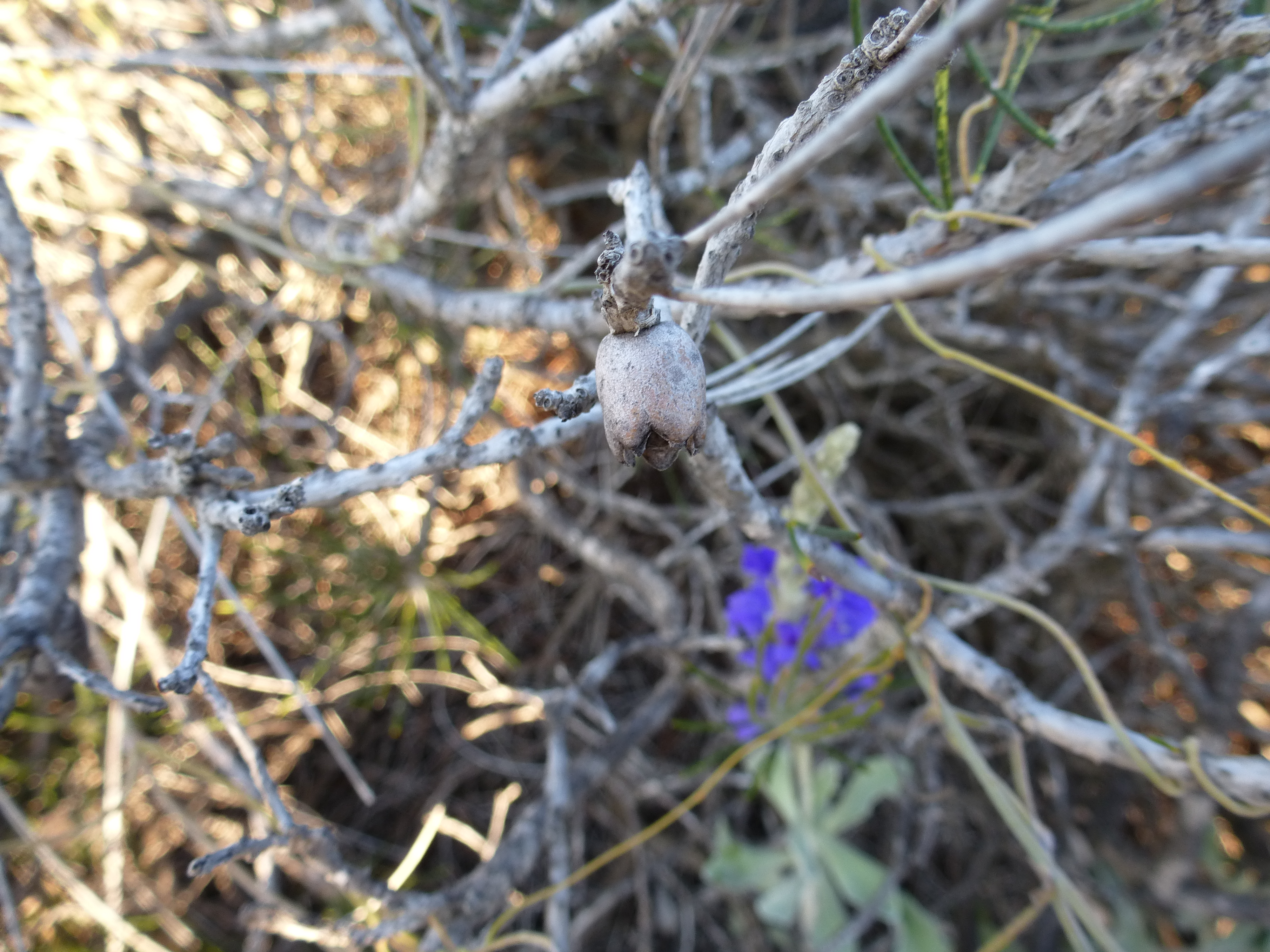 Calothamnus chrysanthereus growing on Red Bluff, near Kalbarri